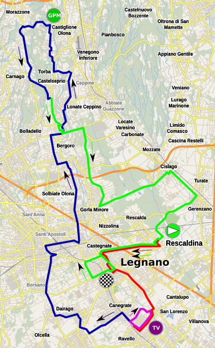 Map of the stage 8 of the Giro rosa 2016.